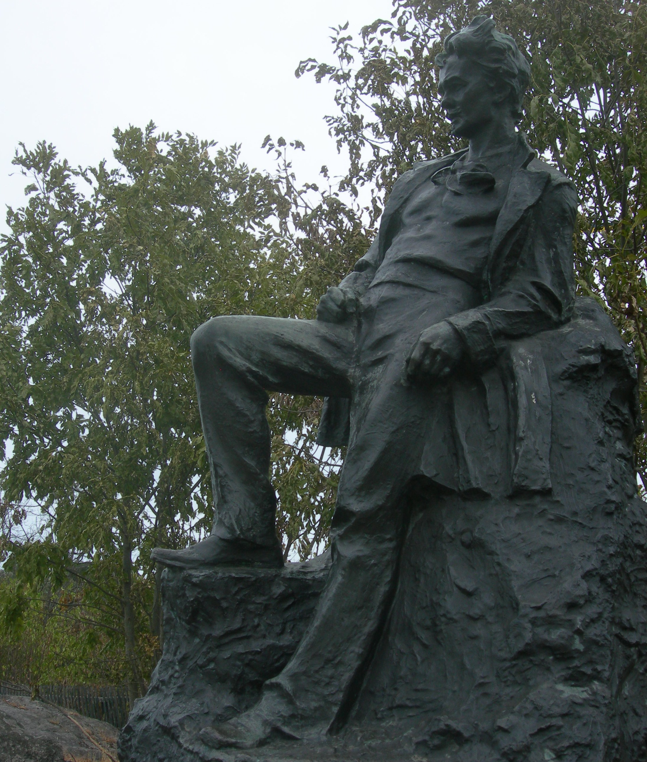 Statue of August Strindberg by Carl Eldh (1873-1954). The sculpture of "The Young Strindberg in the Archipelago" is located outside Carl Eldh's studio museum in Bellevue Park at Roslagstull, Stockholm.